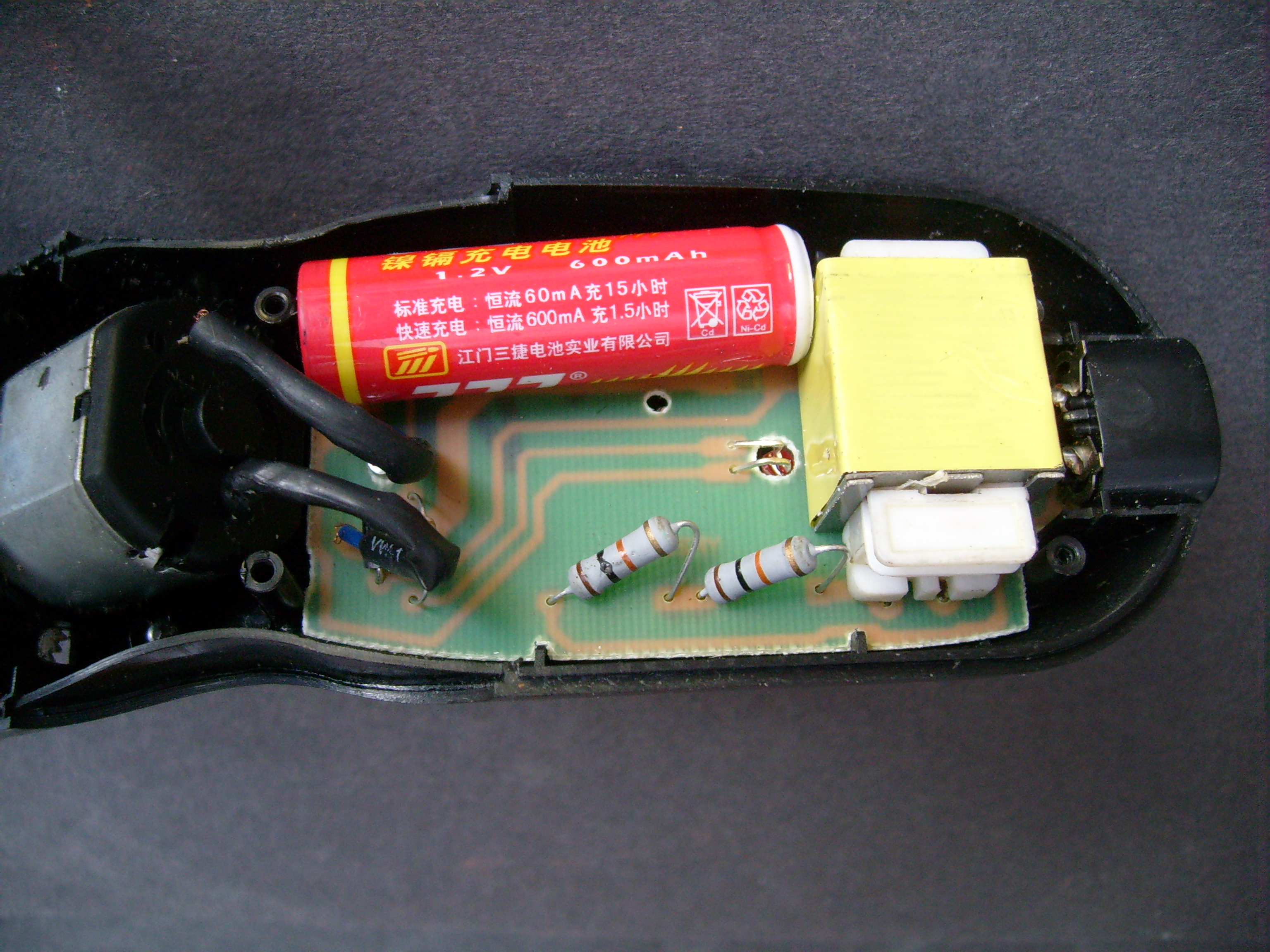 Insides of unbranded rotary shaver showing the 600mAH Ni-Cd battery used (Red) - this is in standard AA format albeit without the "nipple" at the positive end - and is soldered into place. User replacement of such a battery would probably void the warranty. The yellow box to the right is a transformer to convert 230Vac mains current into a sutable lower voltage. Tucked away underneath the nearer motor wire is a rectifier diode to convert this low-voltage ac to dc for charging the 1.2V battery.